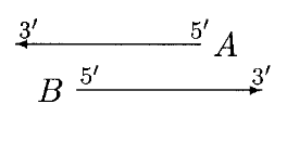 testcase4